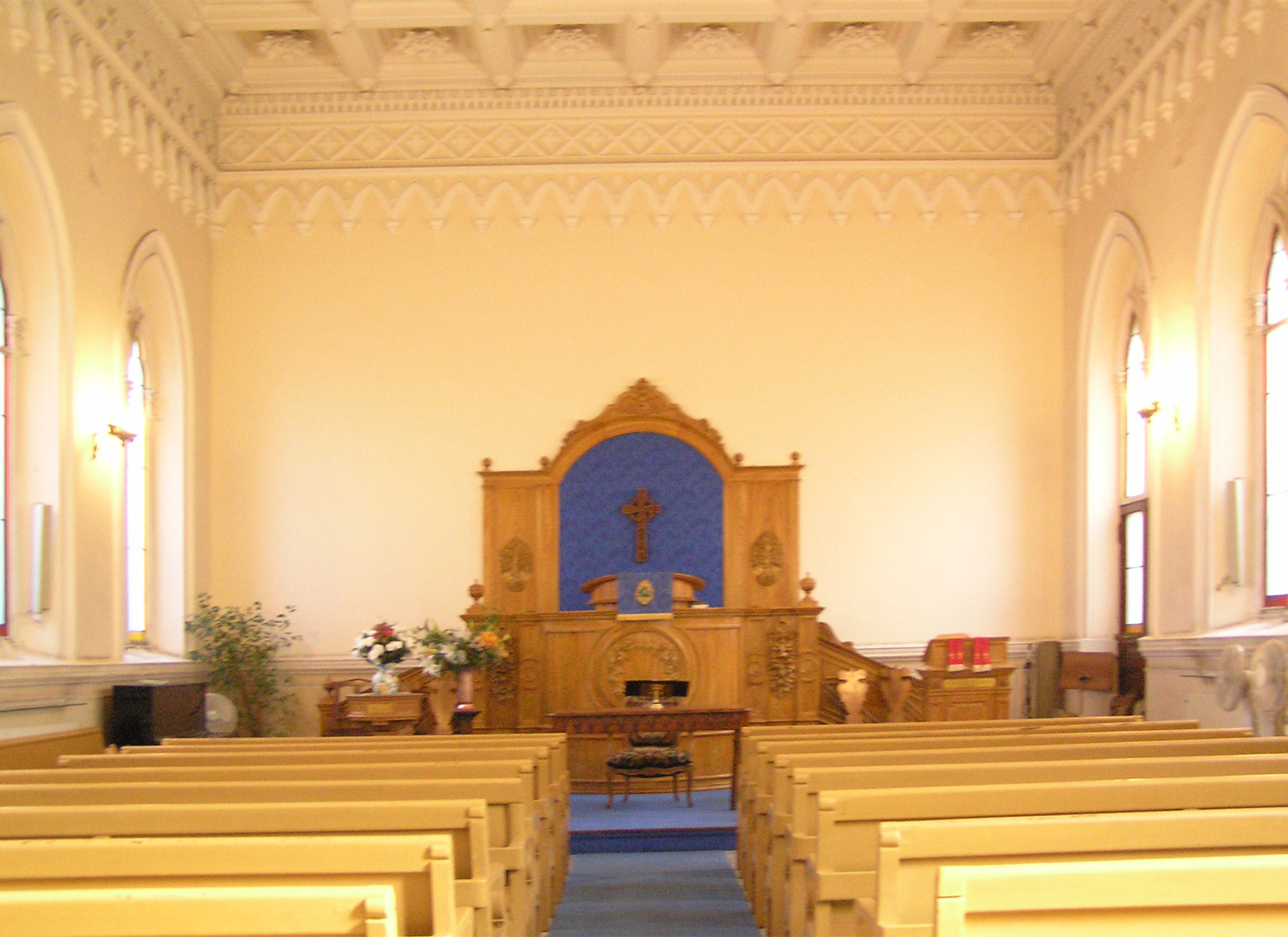 Photo taken by me, 30.10.05--Laufenthalbub 15:45, 7 November 2005 (UTC)